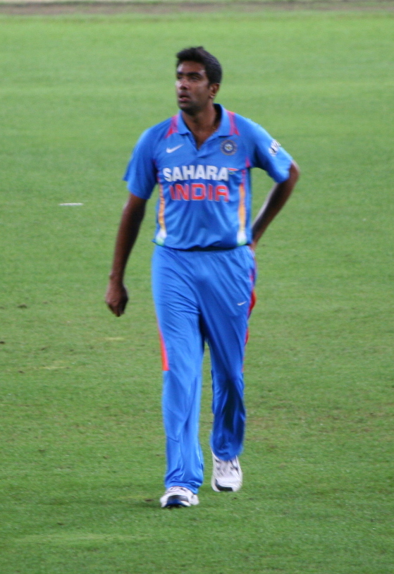 Ashwin